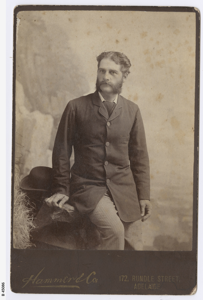 B-45086 Spencer John Skipper, approximately 1880